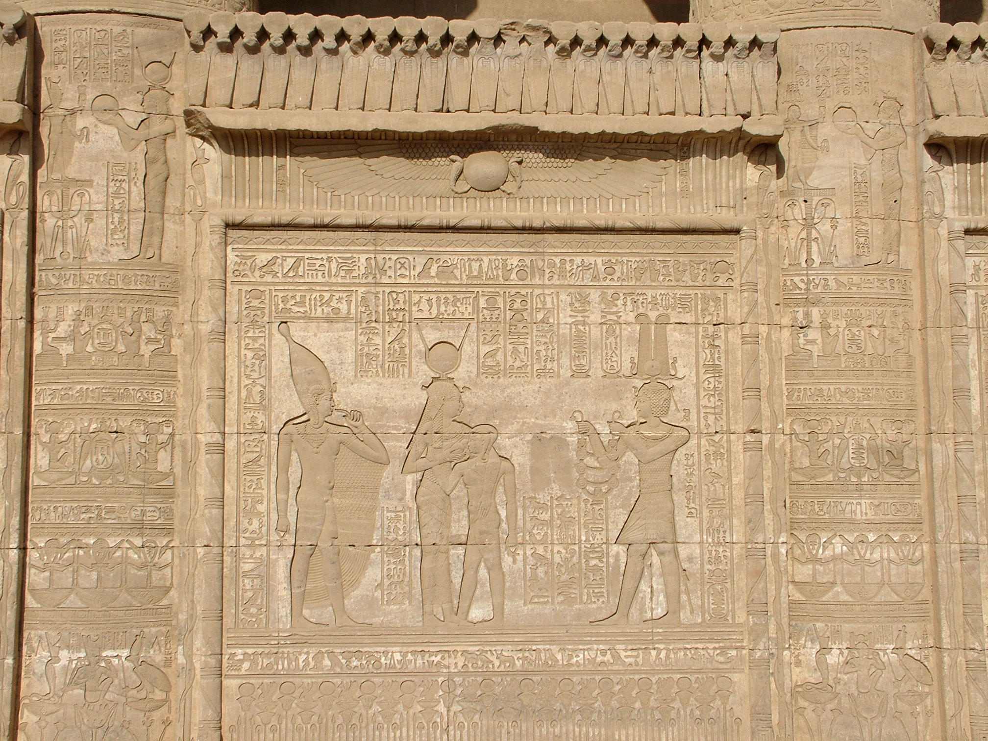 Relief of Traianus on the side of the mamisi of the Dendara temple, Egypt. Hathor suckling her son Ihy.